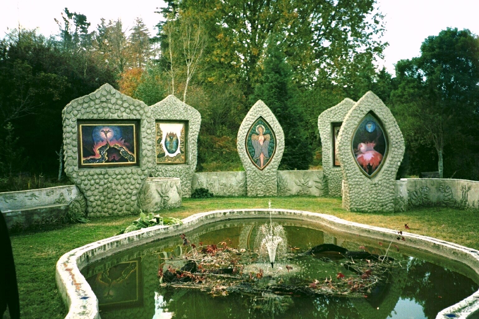 ecology shrine in Hogsback, SOuth Africa